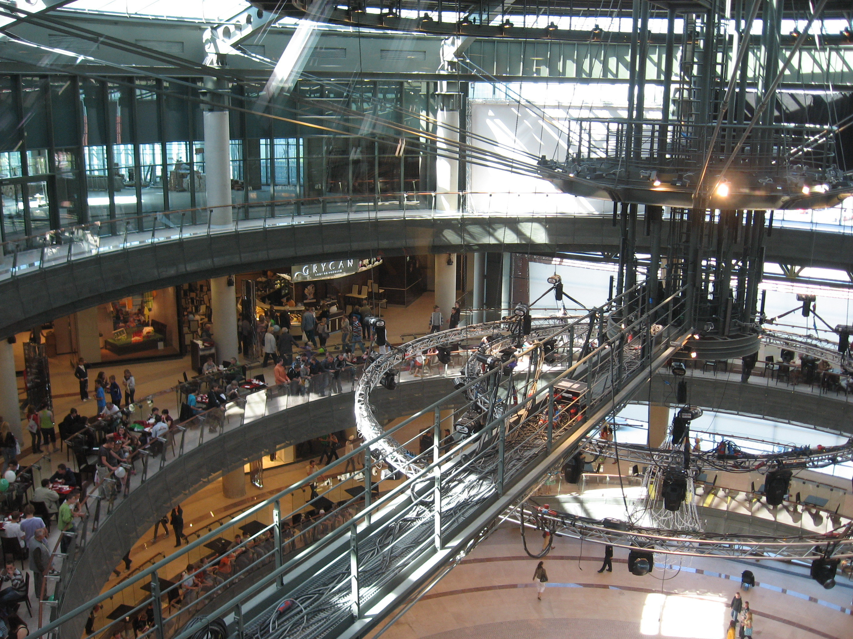 Shopping centre Cuprum Arena - Lubin, Poland.